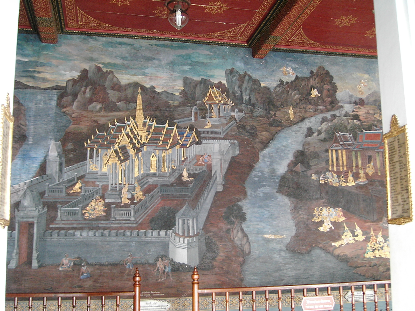 I did it in May, 2005. --earthengine 04:44, 14 September 2005 (UTC)